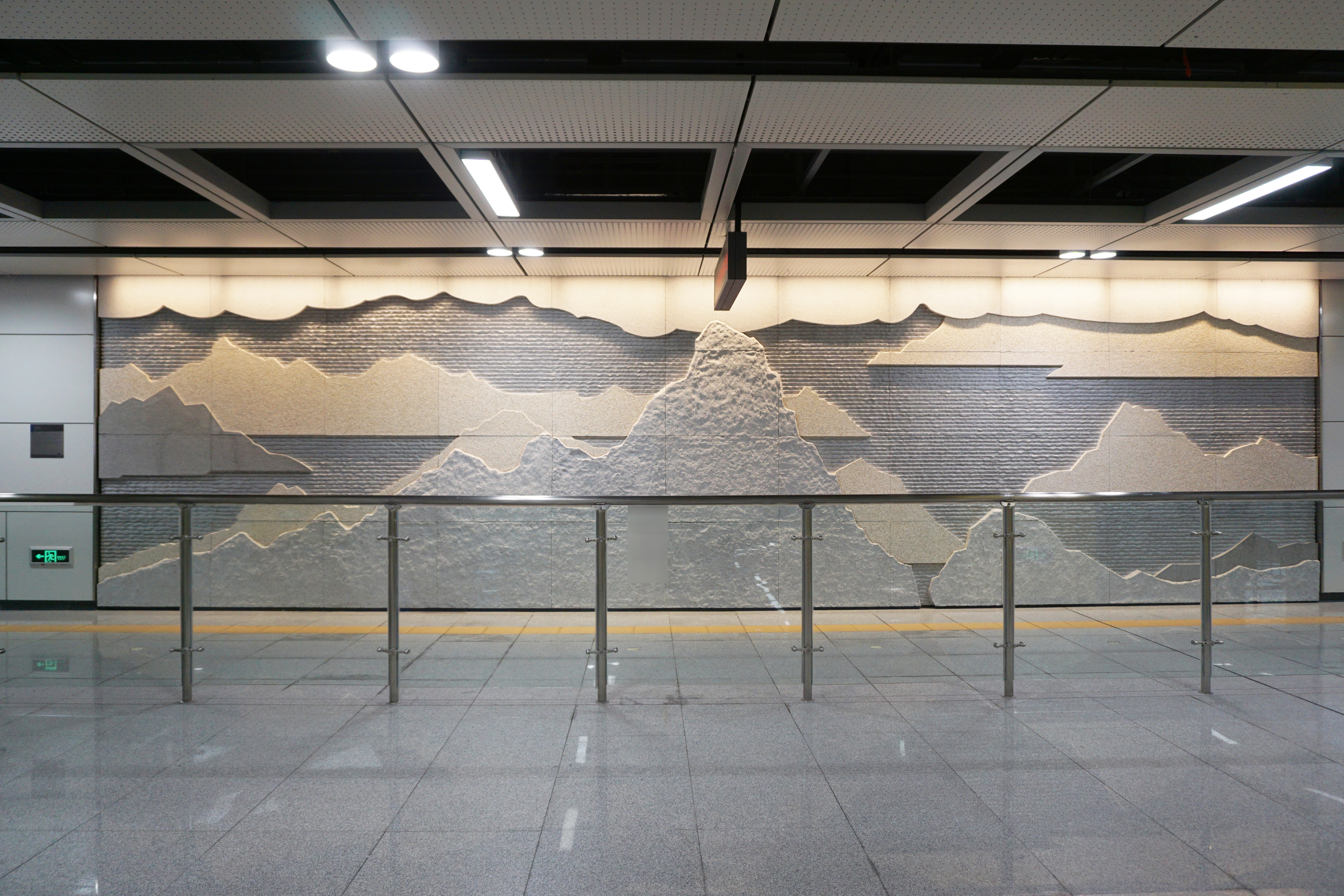 Fumin Station in Huanggang Port, Shenzhen.